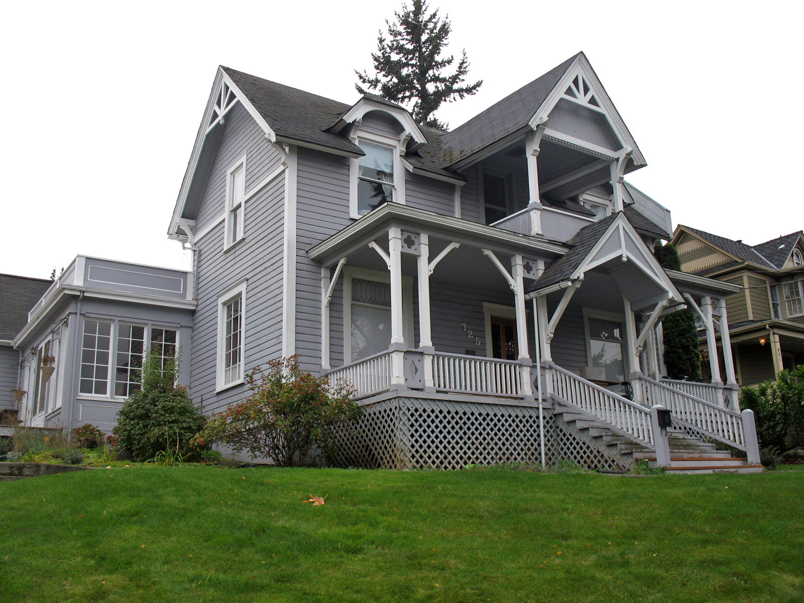 National Register of Historic Places listings in Hood River County, Oregon. Davidson-Childs House, 725 Oak St, Hood River, OR. Photographed October 28, 2009 from the south side of Oak St. near the intersection of and 8th St.